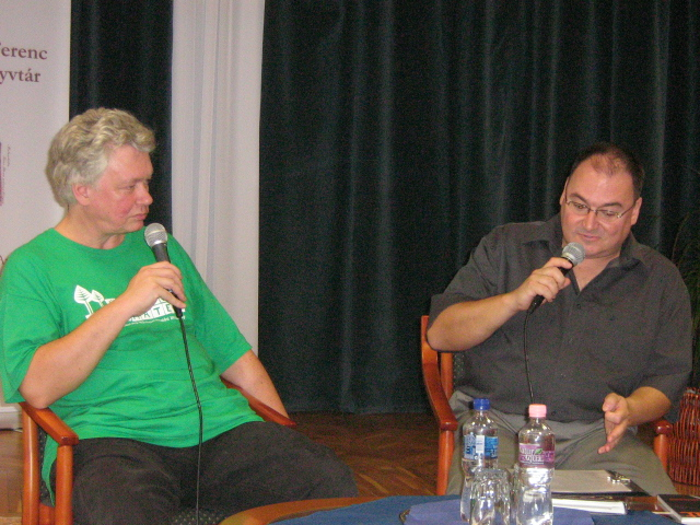 Zoltán Kocsis Hungarian pianist (on the left side) and László Jenei writer (on the right side) in Miskolc.